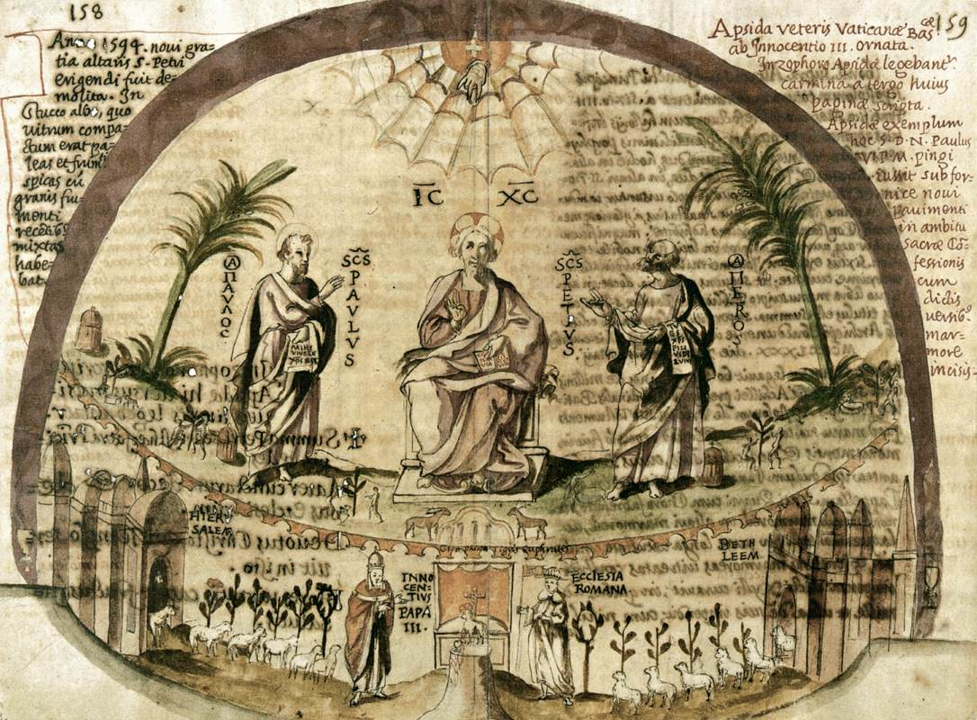 Watercolour drawing of the apse from old St. Peter's Basilica, depicting Christ Pantokrator.